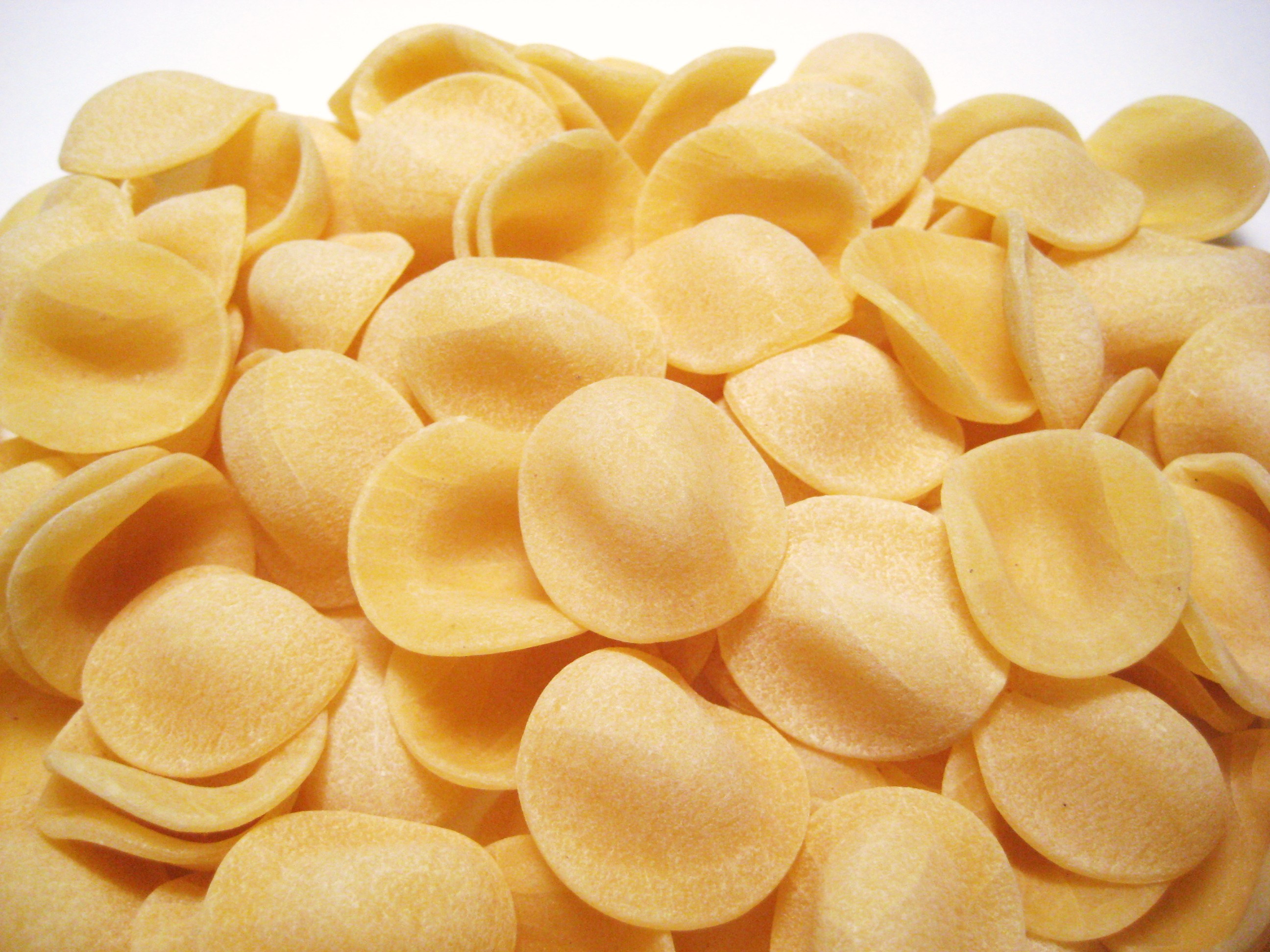 Uncooked orecchiette pasta